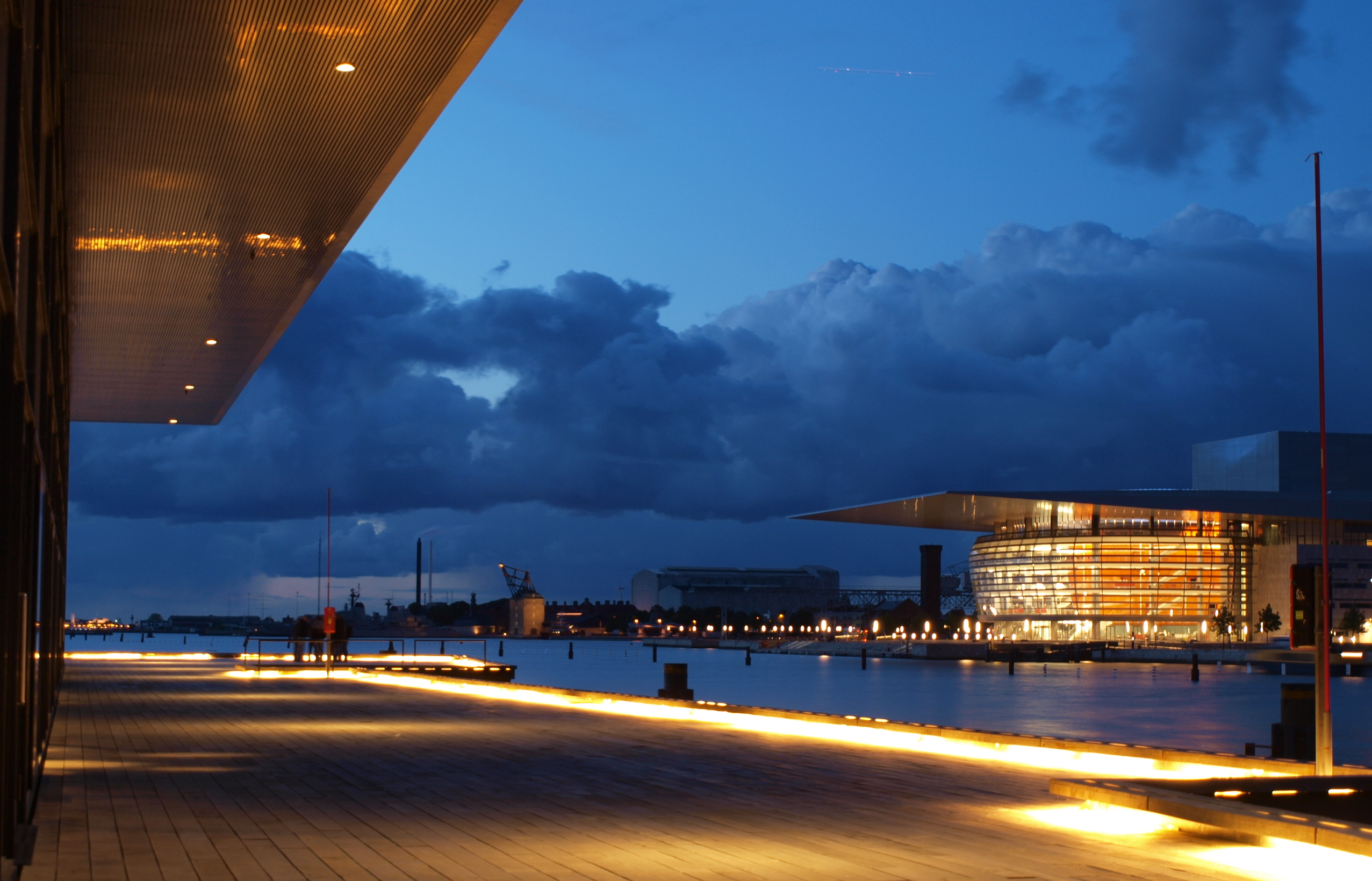 new theater and new opera of Copenhagen at night